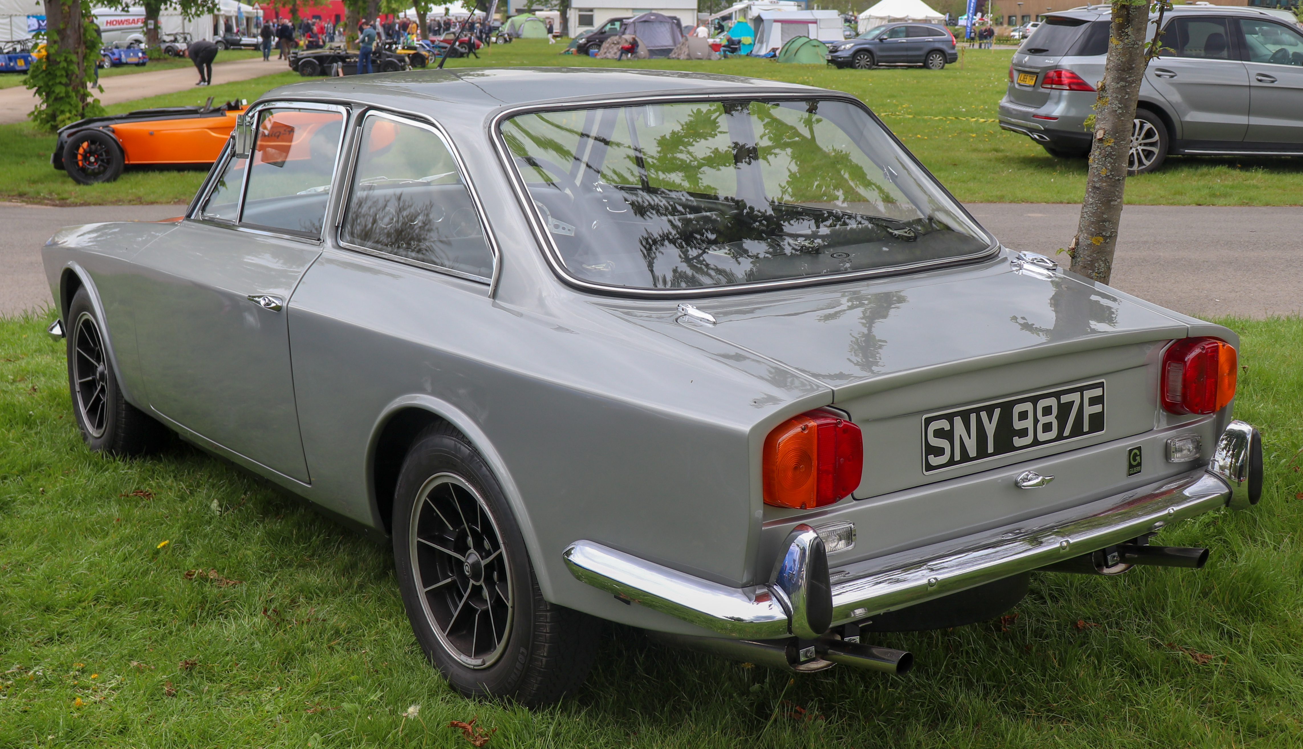 1968 Gilbern Genie 3.0 Rear Taken at the Stoneleigh National Kit Car Motor Show 2019